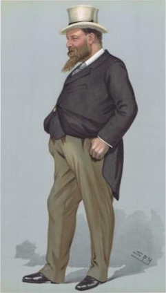 Caricature of The Hon LW Rothschild MP. Caption read "the Aylesbury Division".